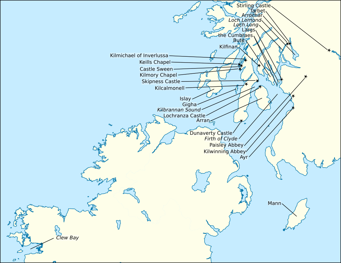 Map for the Wikipedia article concerning Murchadh Mac Suibhne.